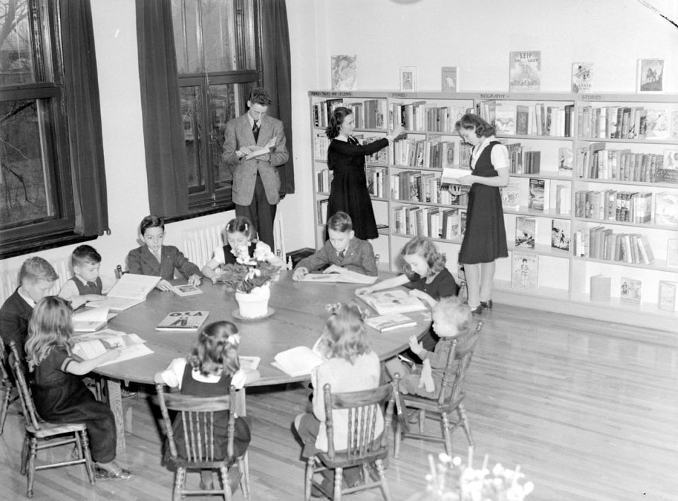 Children read at a round table in the children's library of Notre-Dame-de-Grâce in Montreal. We note three adults who consult volumes to the library shelves.